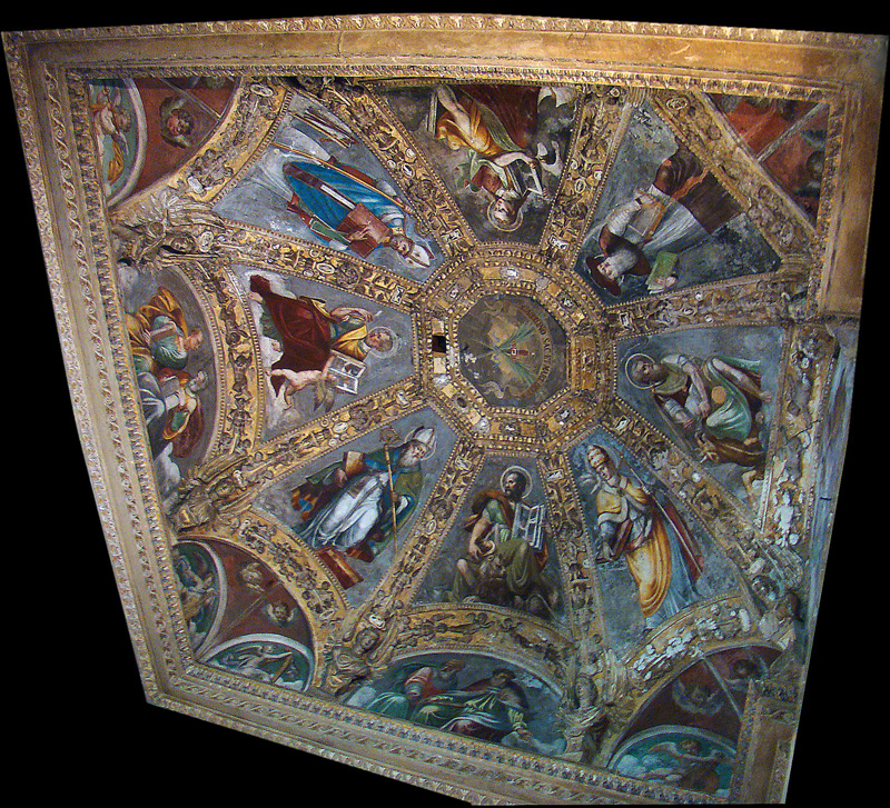 San Lorenzo Maggiore, Milan, Lombardy, Italy. Ceiling of the Sant'Aquilino Chapel.